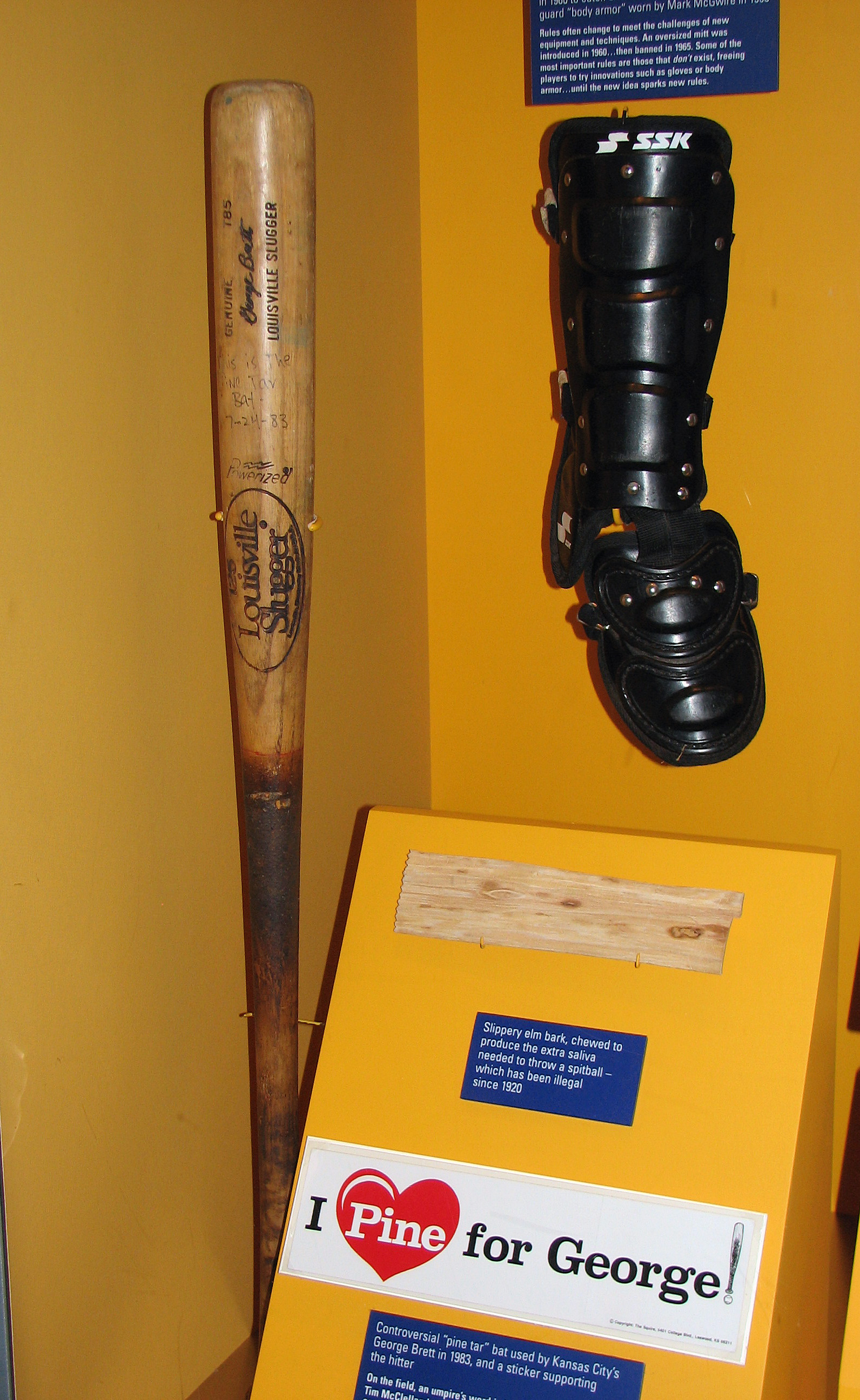 George Brett's pine-tar bat, along with Mark McGwire's body armor: two of the artifacts from the Baseball as America 2006 exhibit at the Henry Ford Museum